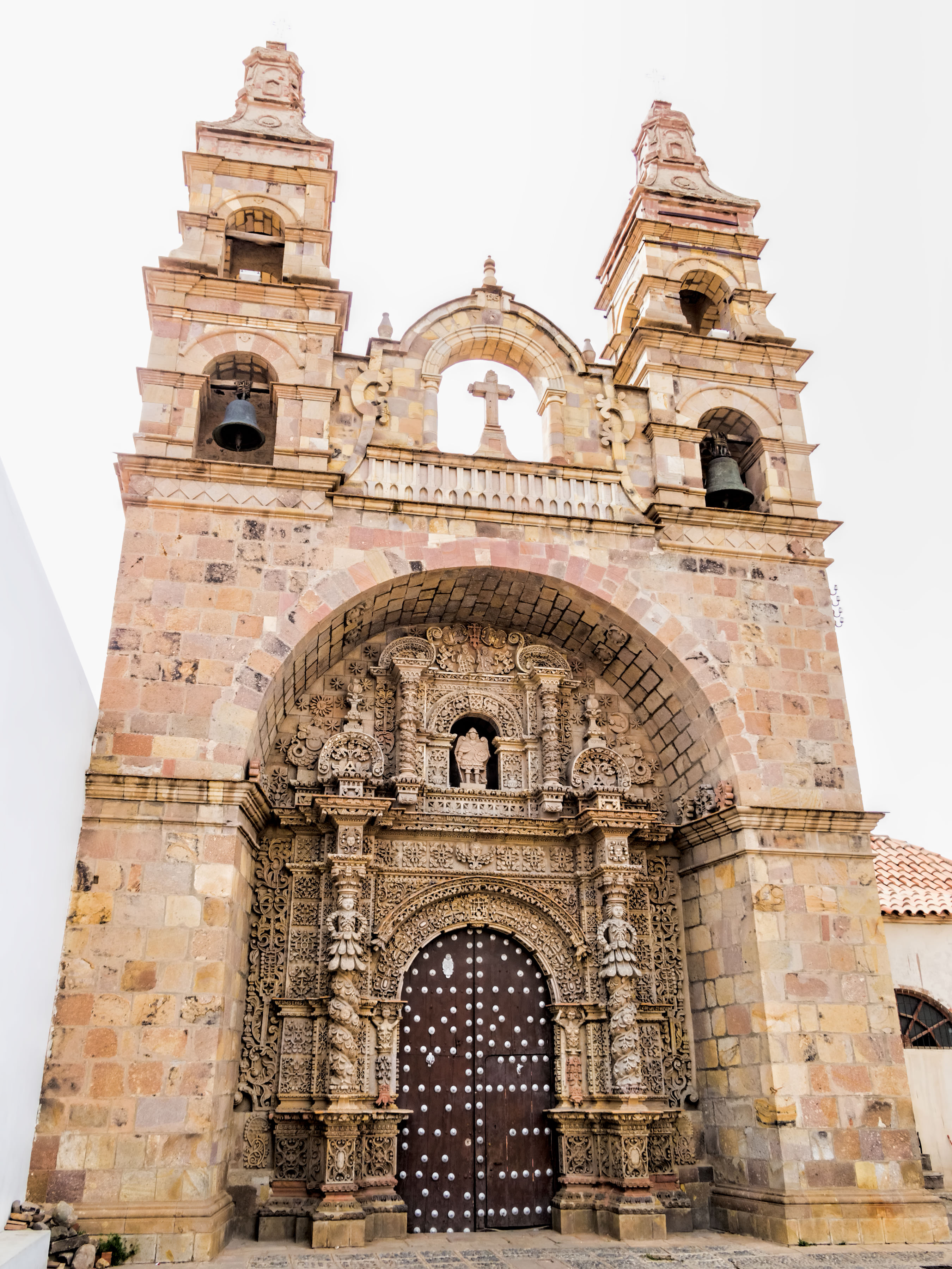 The Church of St. Lawrence of Carangas was built by indigenous people from Carangas, Bolivia, to be their parish church. They had been brought to Potosí to be forced laborers in the silver mine. Construction began in 1548. The church boasts an ornate entrance portal carved in stone by indigenous artisans in a mestizo baroque style. The bell towers were added during extensive remodeling from 1728 to 1744. A renovation was done in 1987. Potosí (elev. 4,090m/13,420ft) [for comparison: Lhasa, Tibet, at 3,658m/12,001ft] was founded in 1545 as a mining town at the foot of Rich Hill (Cerro Rico), the world’s largest silver deposit. An estimated 60% of all silver mined in the world during the second half of the 16th century came from Potosí which was reputed to be the world’s largest industrial complex at the time. Its population eventually exceeded 200,000 people, making it one of the largest cities in the world. Most of the mining and smelting (using mercury) was done by forced labor, both indigenous people and African slaves. As many as 8 million workers are estimated to have died between 1545 and 1825. Output began to decline in the early 19th century. By the 1890s, low silver prices prompted a shift to mining tin. Growing demand for tin this century by the electronics industry has helped the local economy. Silver extraction continues on a small scale. Miguel de Cervantes’ novel “Don Quixote” describes Potosí as a land of “extraordinary richness” (chapter 71 in the second volume which was published in 1615). The City of Potosí was declared a UNESCO World Heritage Site in 1987. On Google Earth: Iglesia de San Lorenzo de Carangas 19°35'12.12"S, 65°45'17.50"W